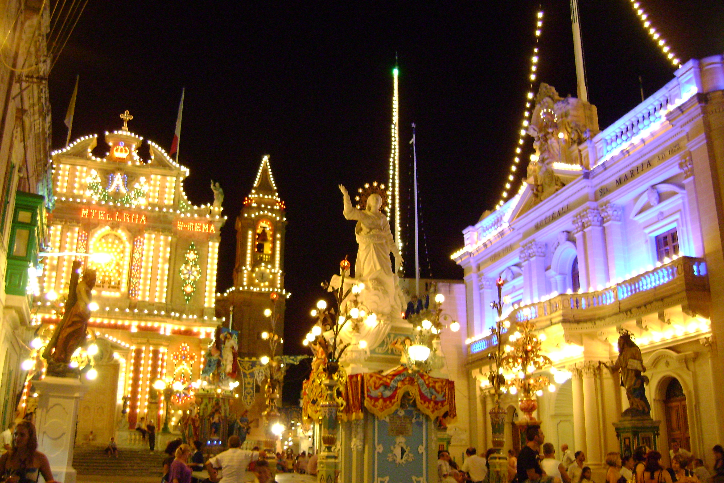 Hal Ghaxaq's main square(Saint Mary square) lit and decorated during the yearly festive week in honour of the Patron Saint of the village Saint Mary, popularly known as "SANTA MARIA" from the 9th to the 15th of August.The church is on the left while the blue lit building is the magnifecent band club of the same feast, called "PALAZZ SANTA MARIJA" meaning "Saint Mary's Palace". Malti: Il-pjazza ewlenija ta' Hal Ghaxaq kif tkun armata u mixghula fil-gimgha tal-festa Titulari tar-rahal mid-9 sal-15 t'Awwissu f'gieh il-Patruna tar-rahal Marija Mtghella s-Sema maghrufa bhala Santa Marija.